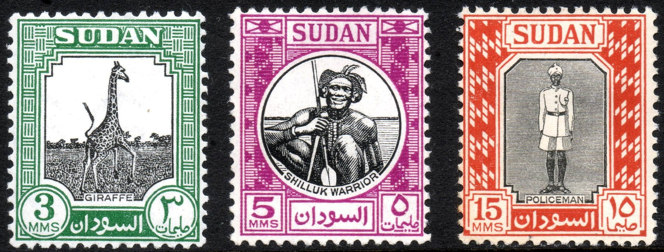 1951 stamps of Sudan.